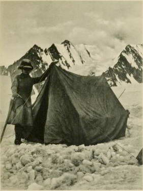 page 113 of The Call of the Snowy Hispar by William Hunter Workman and Fanny Bullock Workman. Published 1911 by Charles Scribner's Sons, New York. Legend to photo "At camp, 16,486 feet, near head of Kanibasar glacier on its first ascent. Mrs. Bullock Workman and modified Mummery tent used by her at high snow-camps on last three expeditions. Similar tents used by other members of expeditions at high camps."